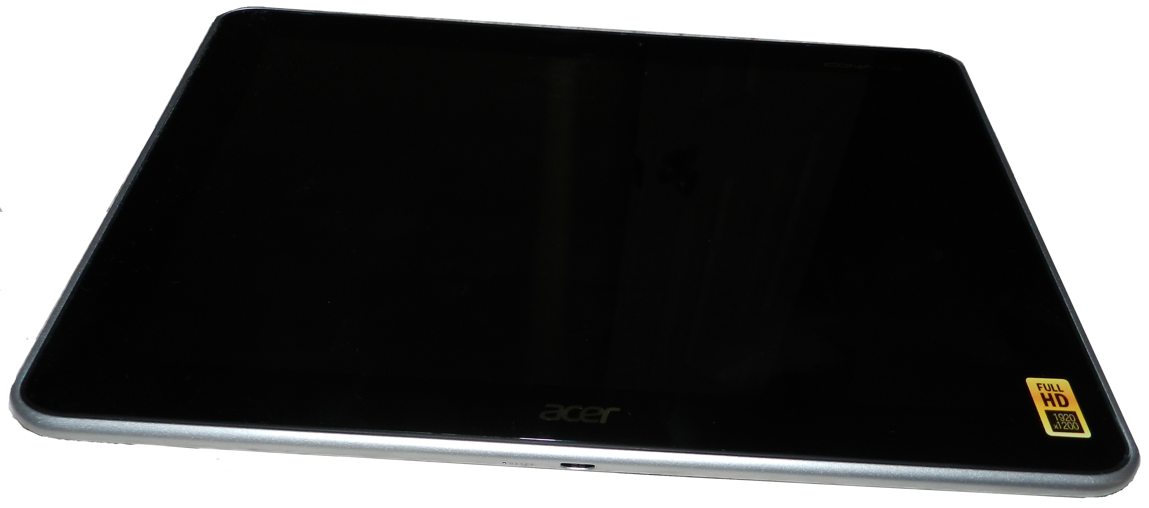 The front side of an Acer Iconia Tab A700